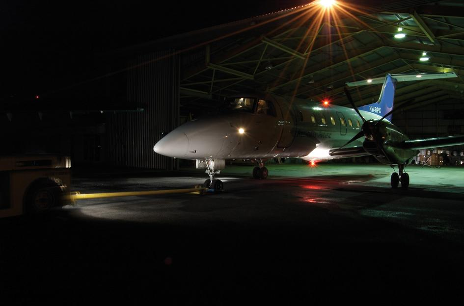 VH-RPX